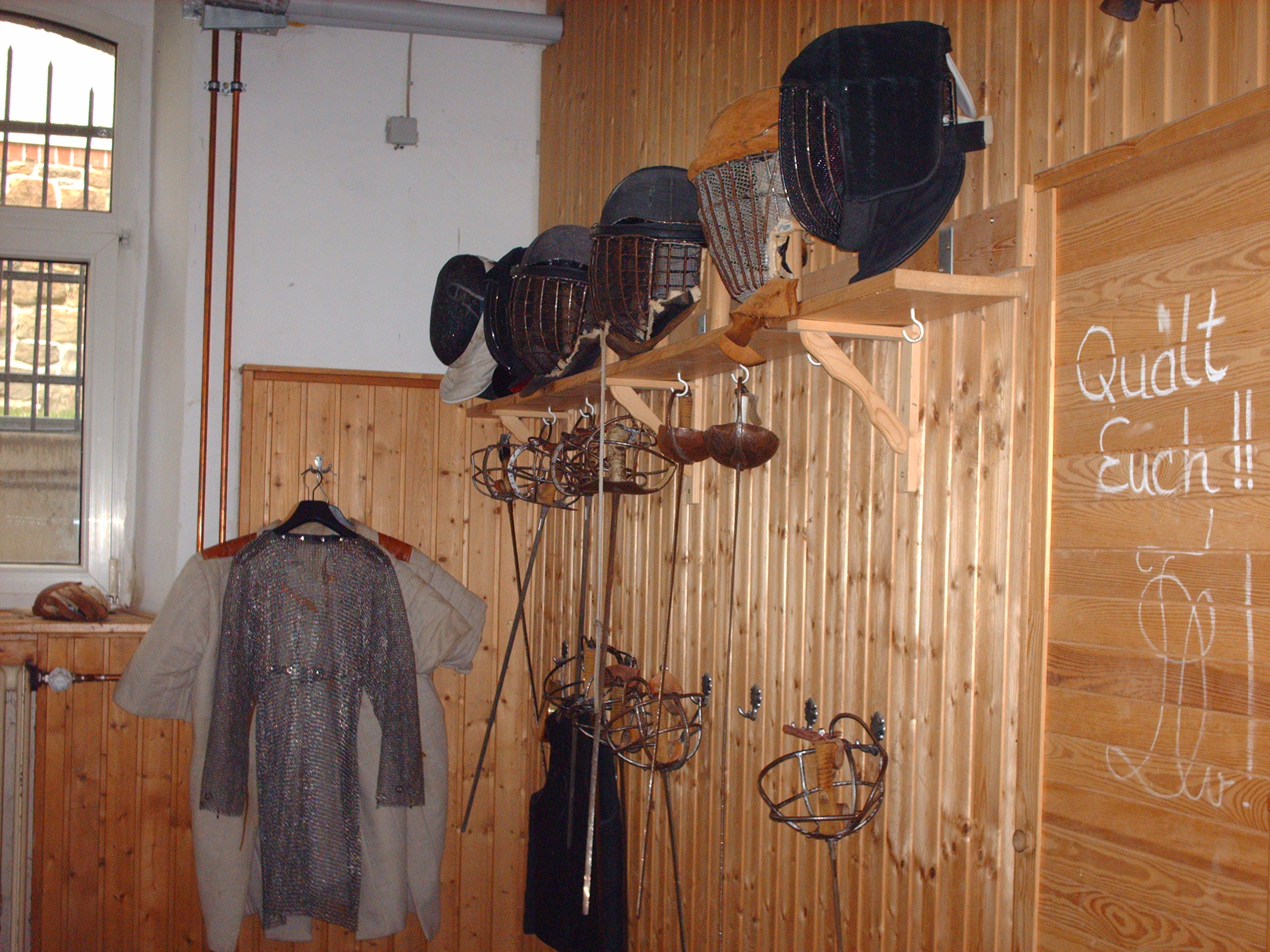 Fencing room in the Verbindungshaus of Darmstadtia Gießen, Gießen, Germany check usage